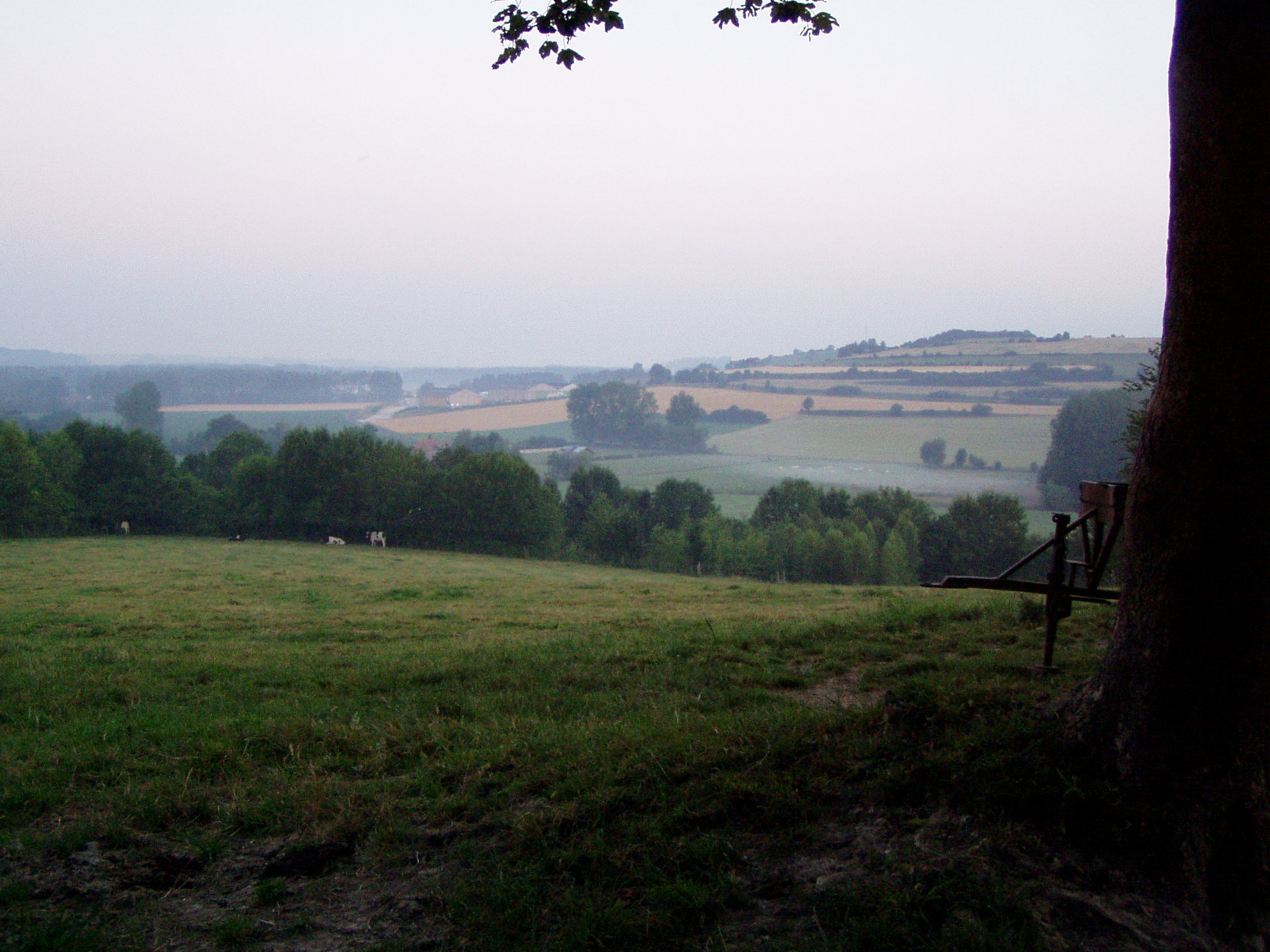 fields near the street of Mont Blanc at Beaurainville early in the morning (France)